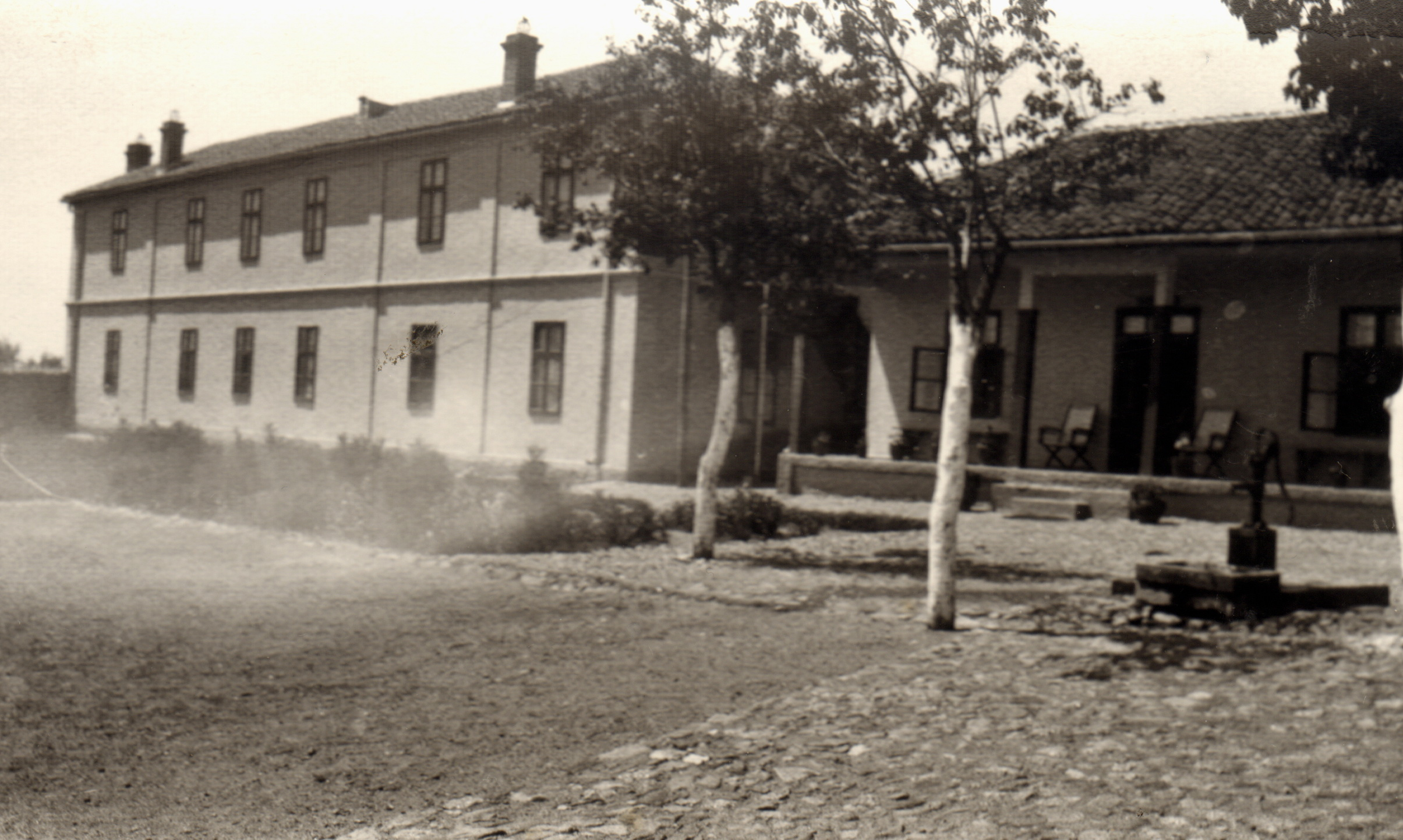 Izgled dvospratne zgrade za smestaj pitomaca, izgradjen 1921. godine